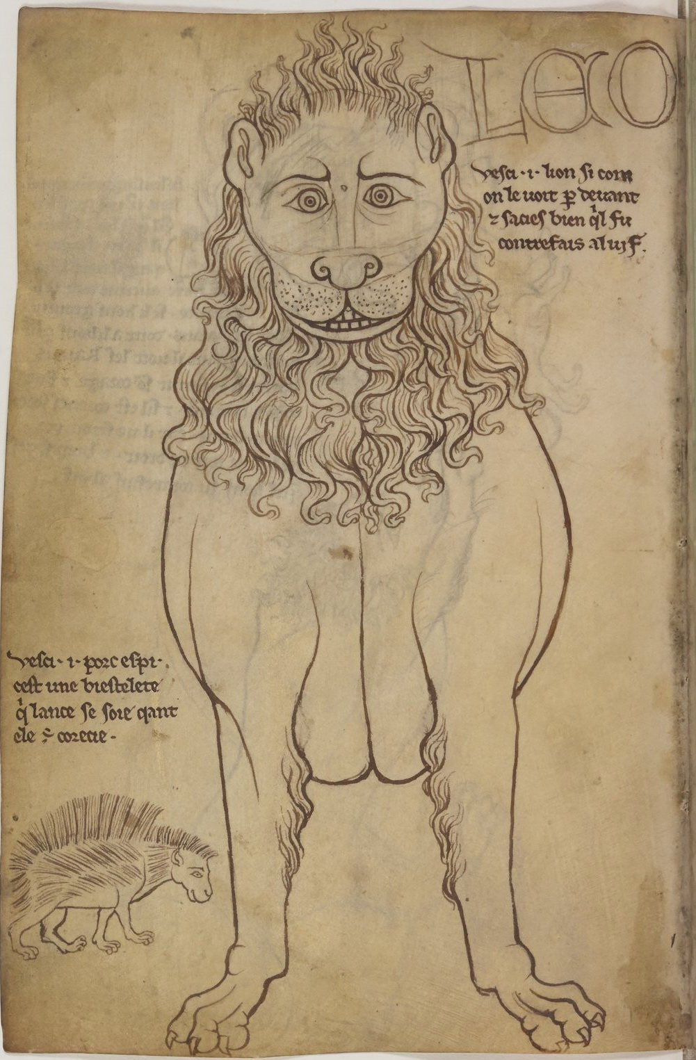 Page from the Sketchbook of Villard de Honnecourt. MS. 19093 French Collection, Bibliothèque Nationale, Paris (No. 1104 Library of Saint-Germain-des Prés until c.1800).